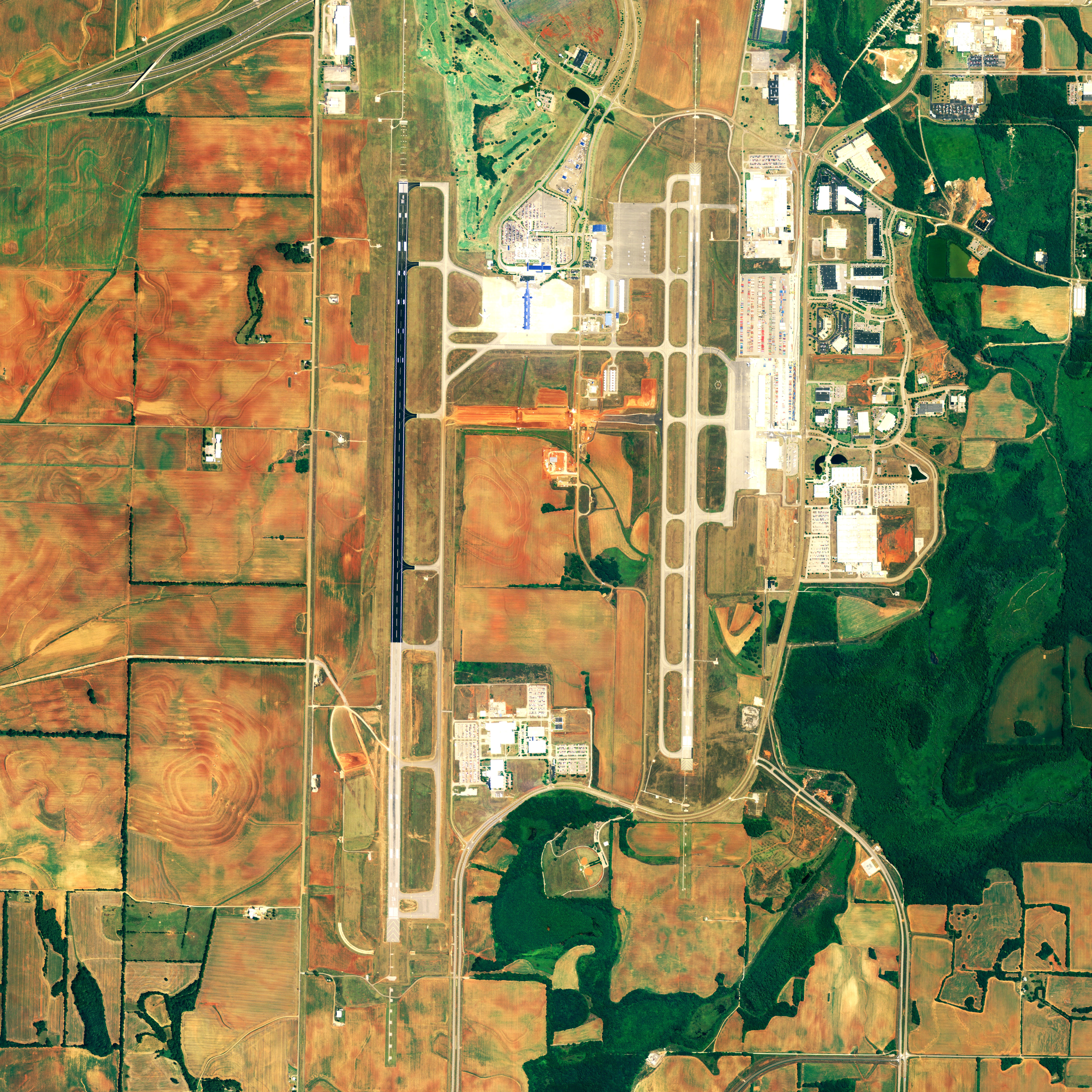 Aerial image of Huntsville International Airport in Huntsville, Alabama, United States